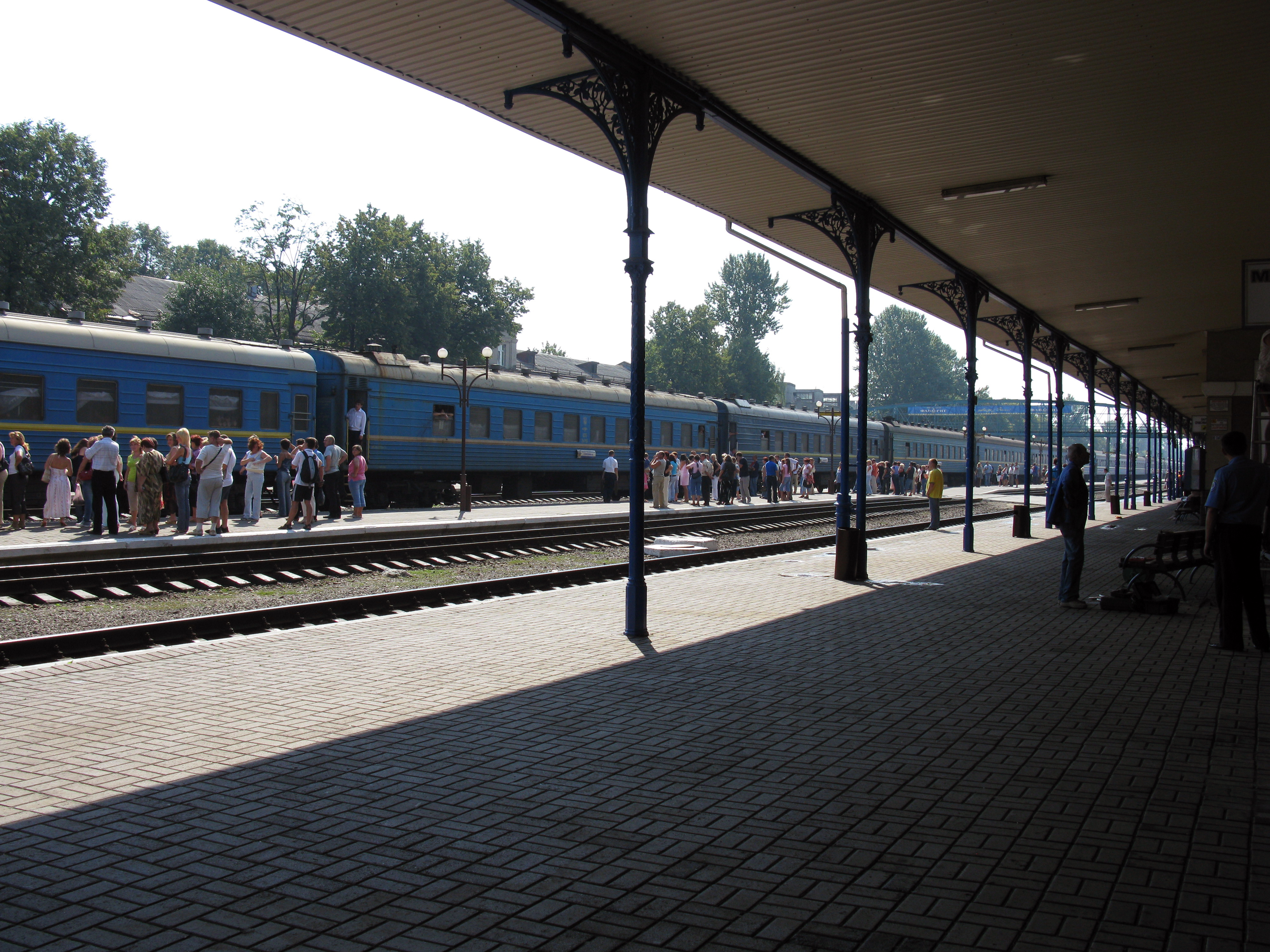 trains side